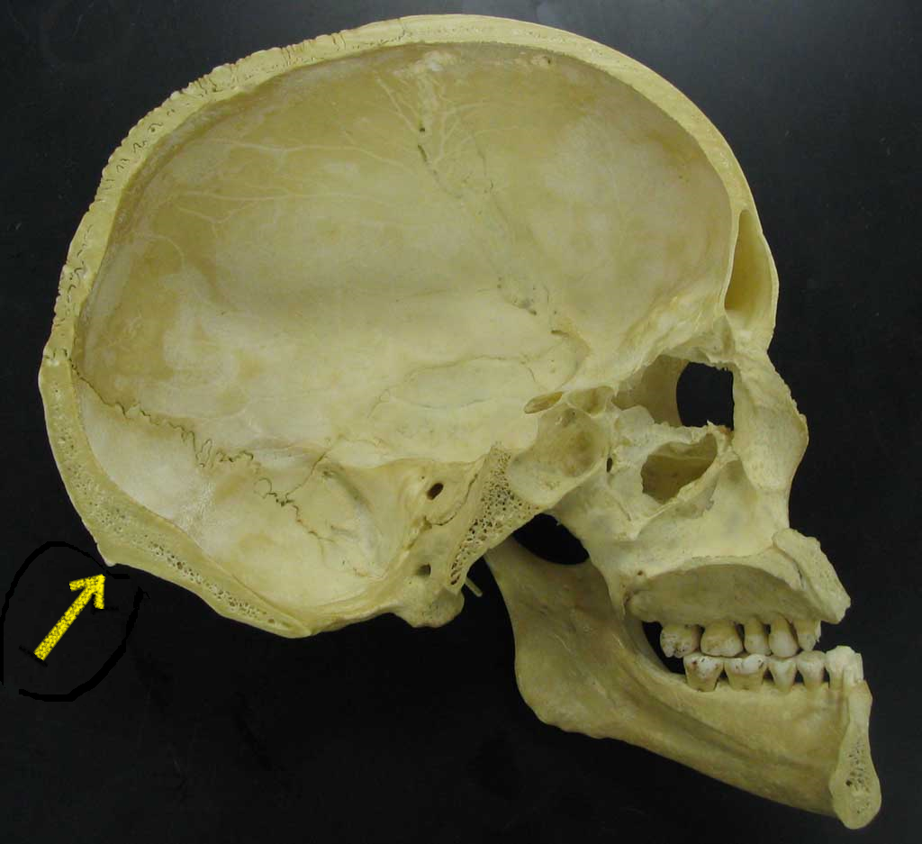 Midsaggital section of a dry human skull. The arrow pointing inion.